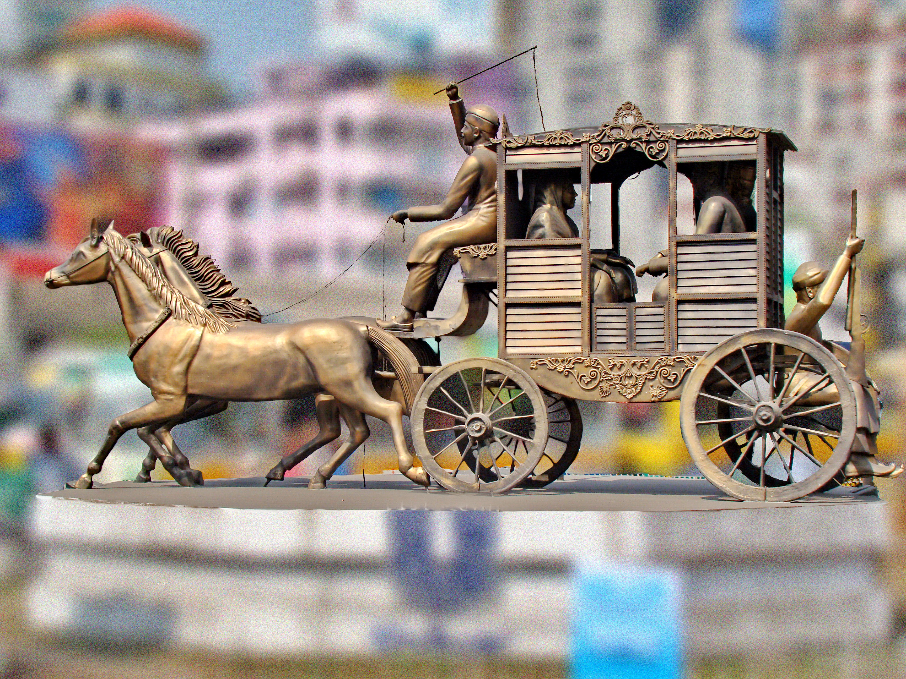 The Rajoshik (north view), a sculpture by Mrinal Haque, in front of the Dhaka Sheraton Hotel, at Minto road, in Dhaka, Bangladesh.